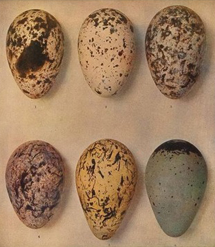 Colour photos of auk eggs